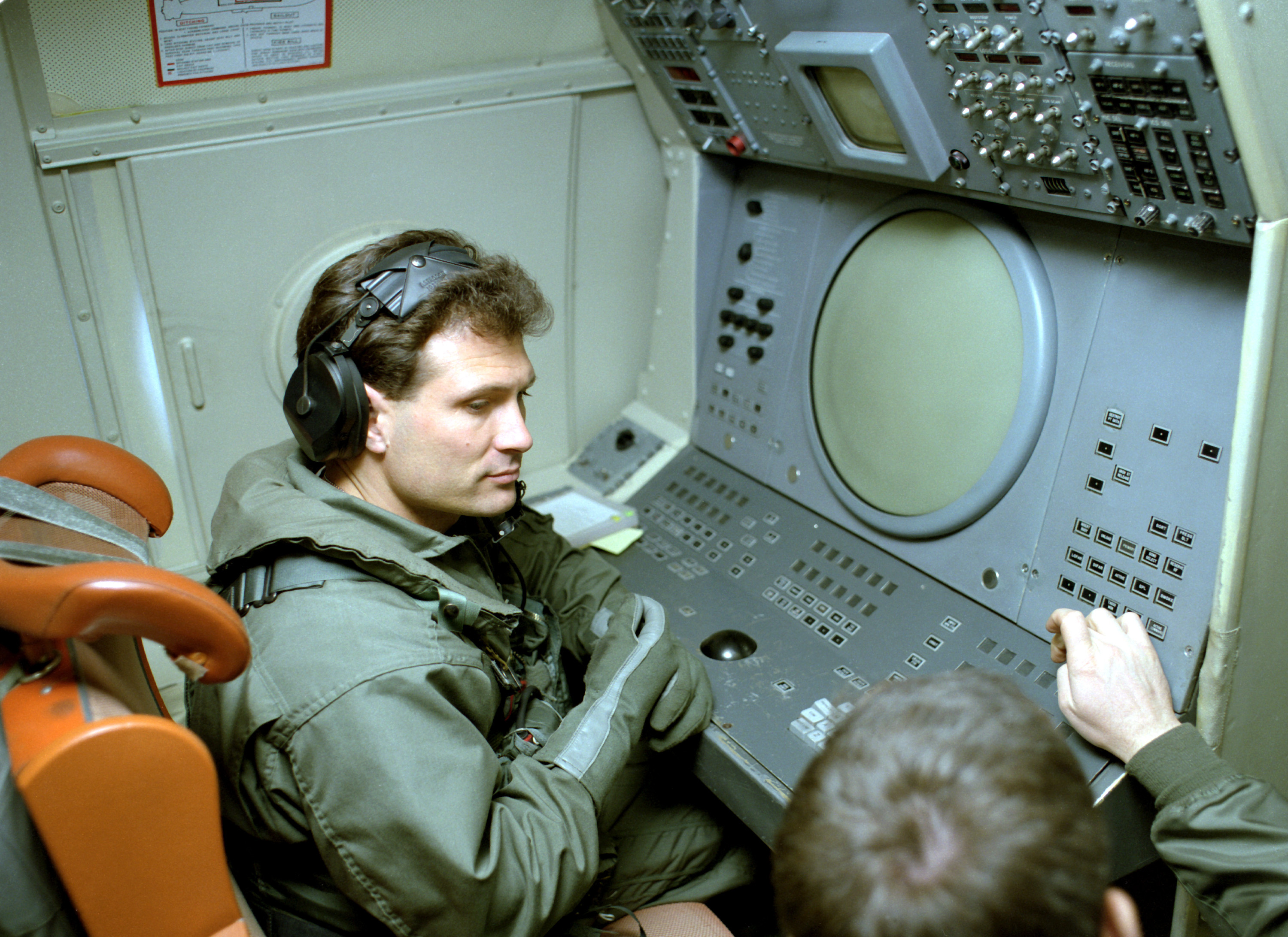 LCdr. Latta, tactical coordinator, monitors a radar screen aboard a Lockheed P-3 Orion aircraft during a training session for Patrol Squadron 31 (VP-31) on 17 Mar 1992.